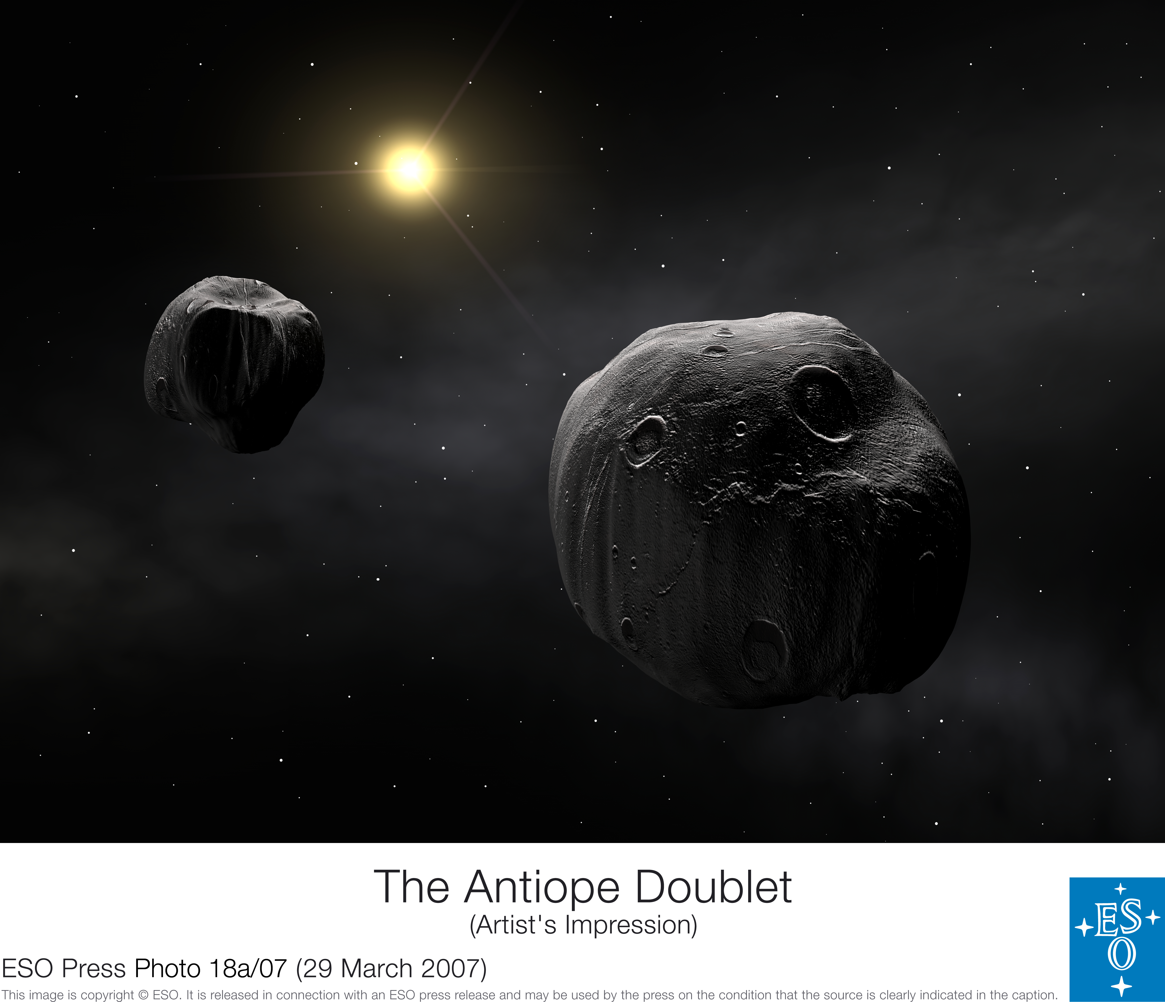 Artist's impression of the double asteroid 90 Antiope. Both components are shown to have a quasi-spherical shape.